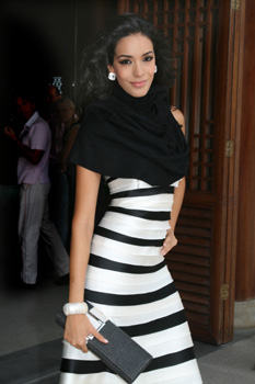 Miss Mexico 2007 Carolina Moran. Photo taken in Miss World 2007, Sanya 1/12/07.